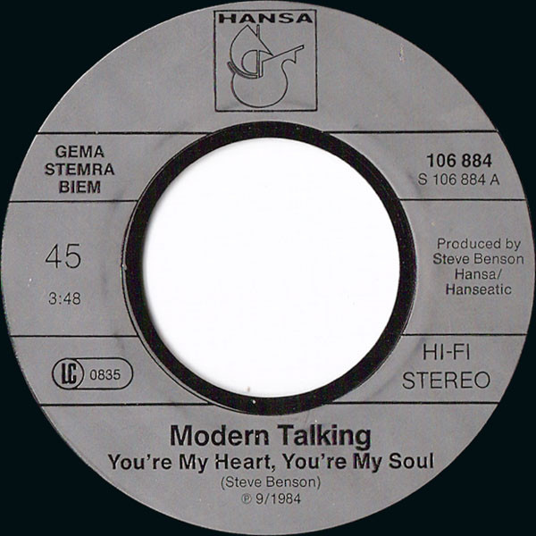 Modern Talking - You're My Heart, You're My Soul. A-side label of the 1984 7-inch single.